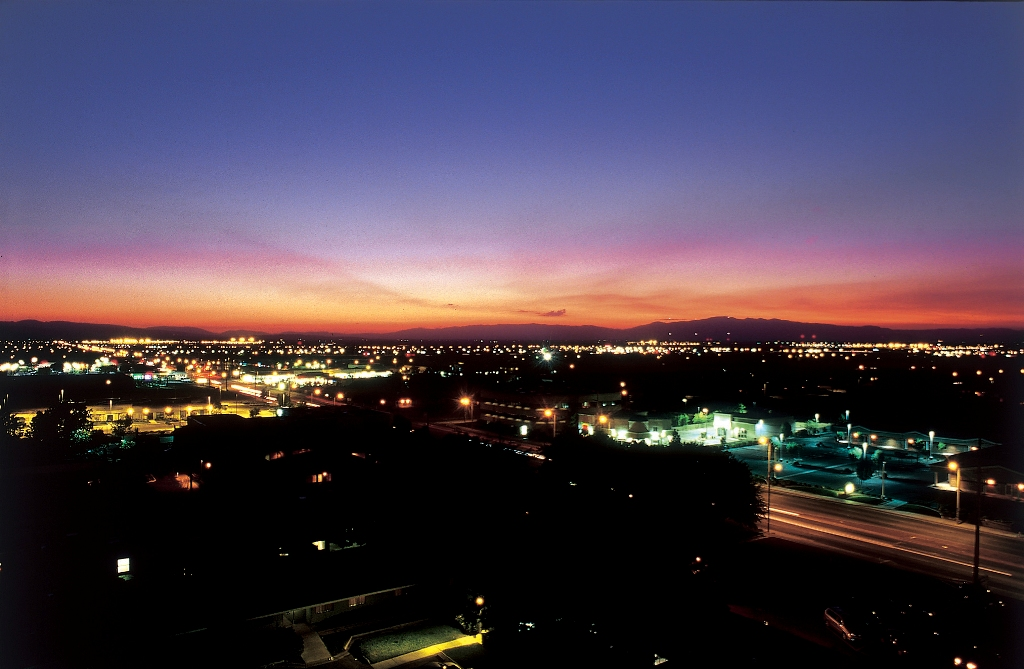 Sunset over Lancaster, California